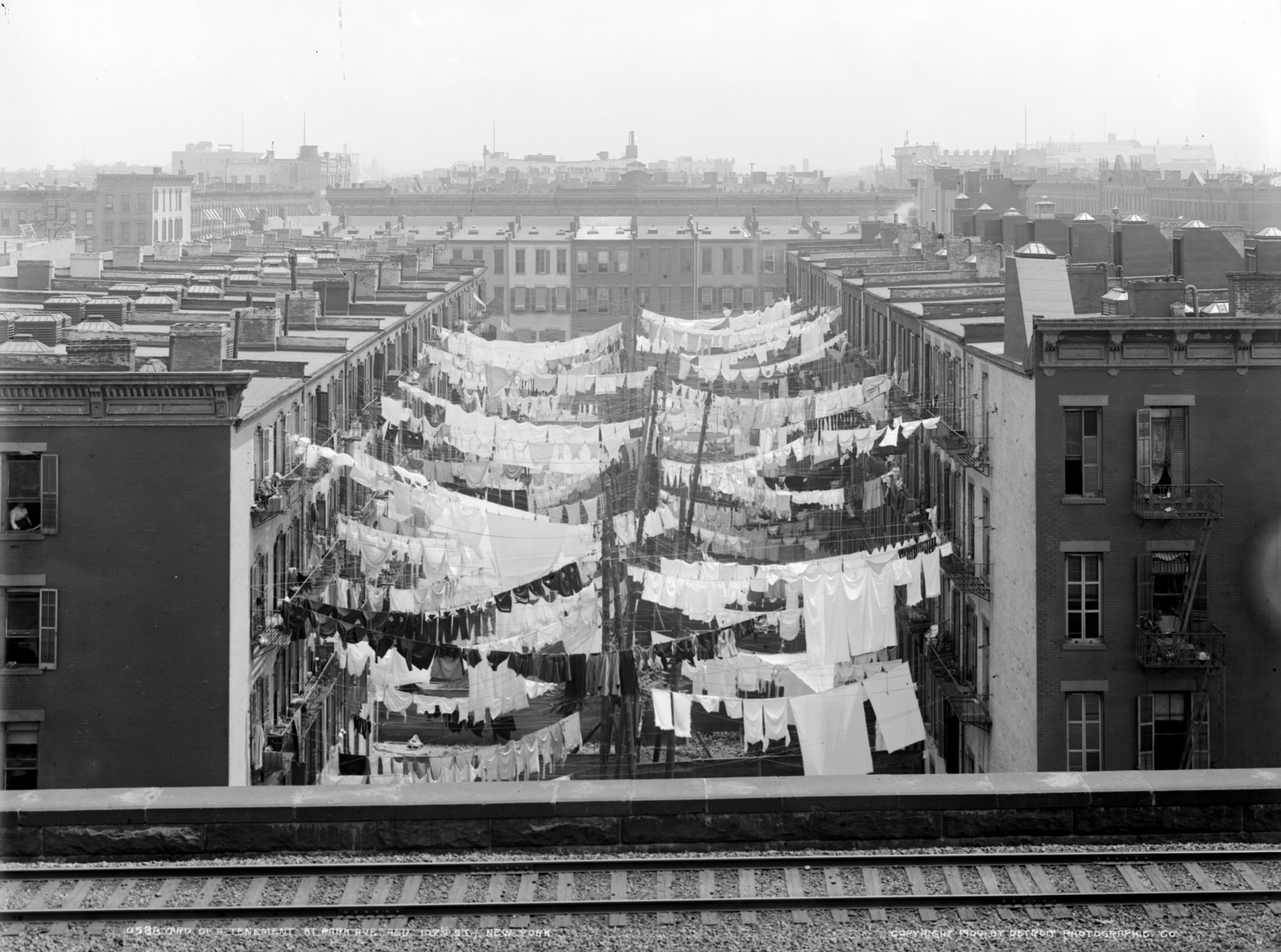 Yard of a tenement at Park Ave. [Avenue] and 107th St., New York